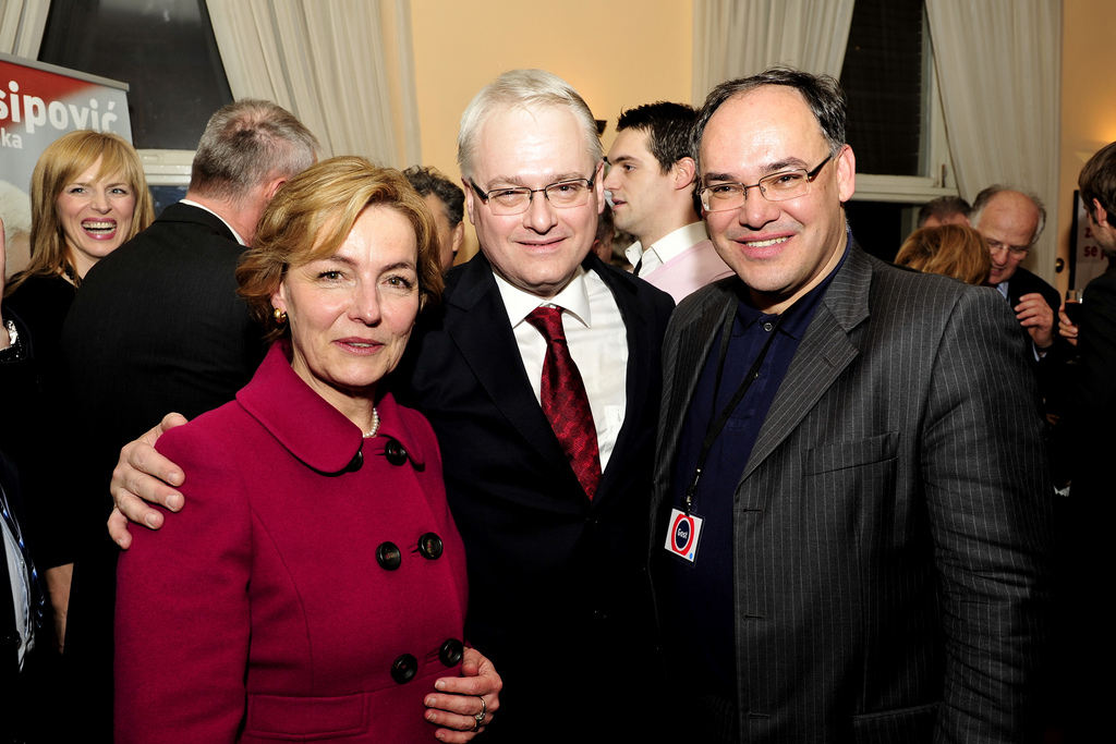 Ivo Josipović, Vesna Pusić and Damir Kajin during the second round of Croatia Presidential Election